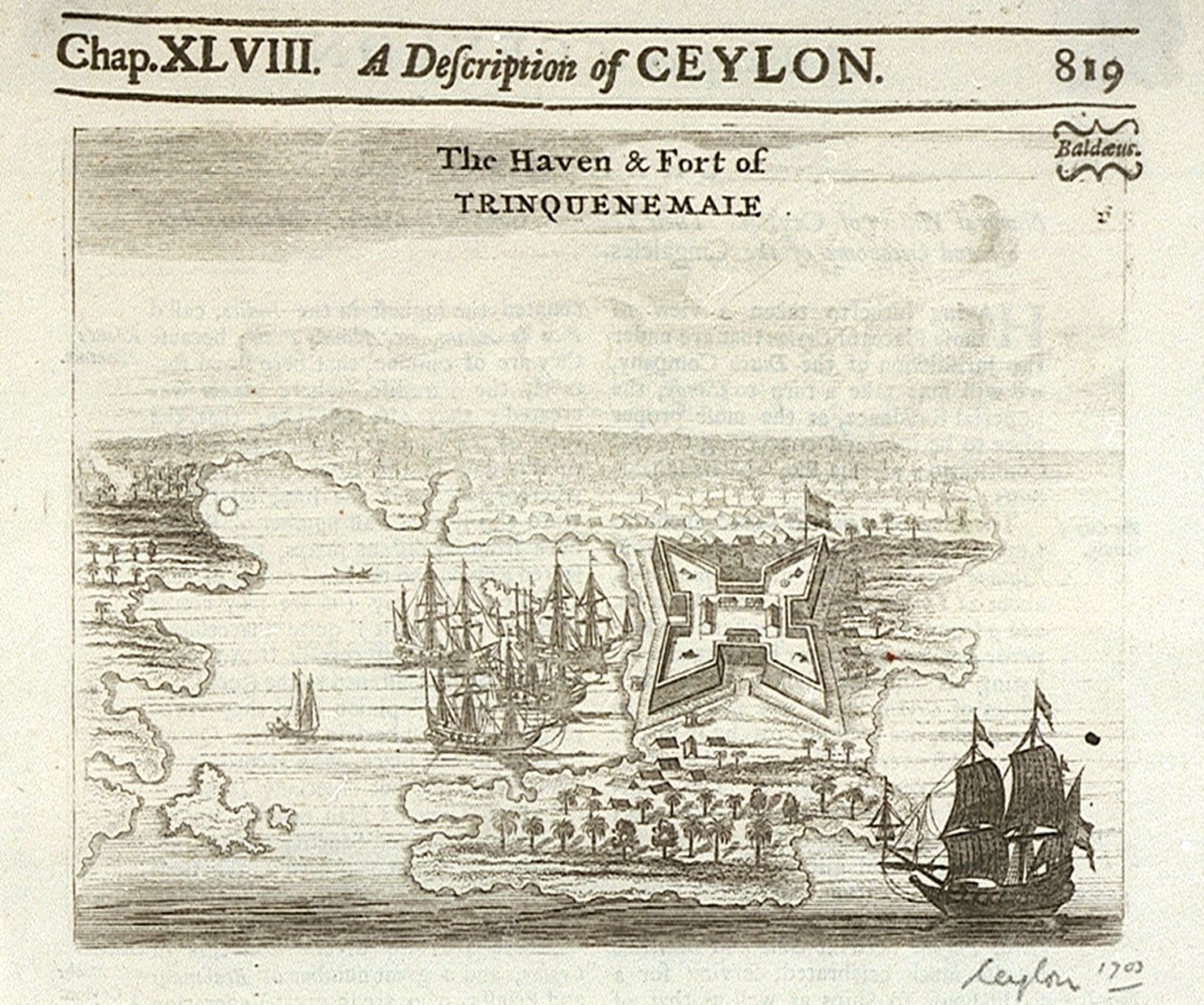 Ceylon Mounted with PAD1858.